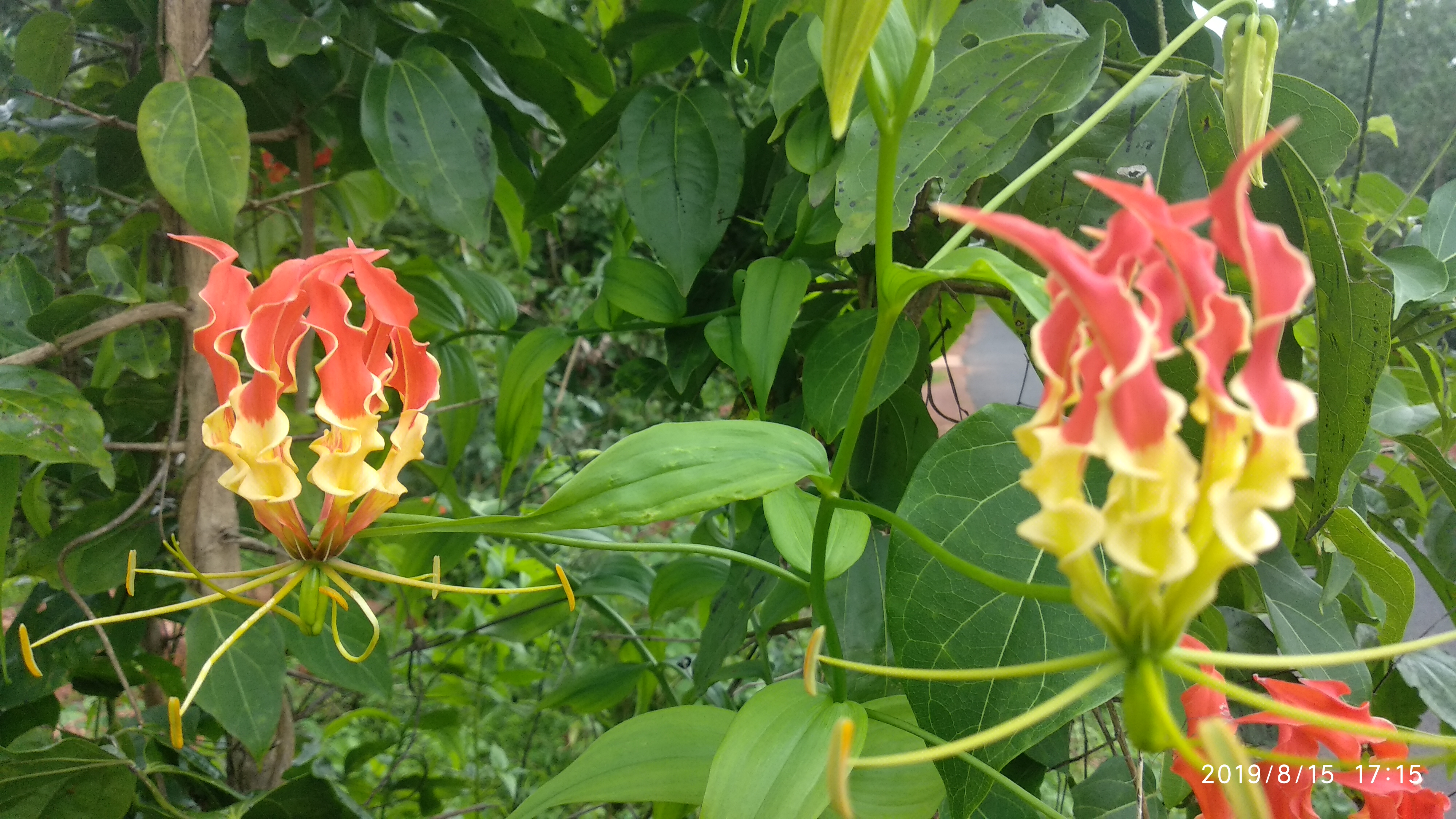 Gloriosa superba, flame lily, climbing lily, creeping lily, glory lily, gloriosa lily, tiger claw, and fire lily